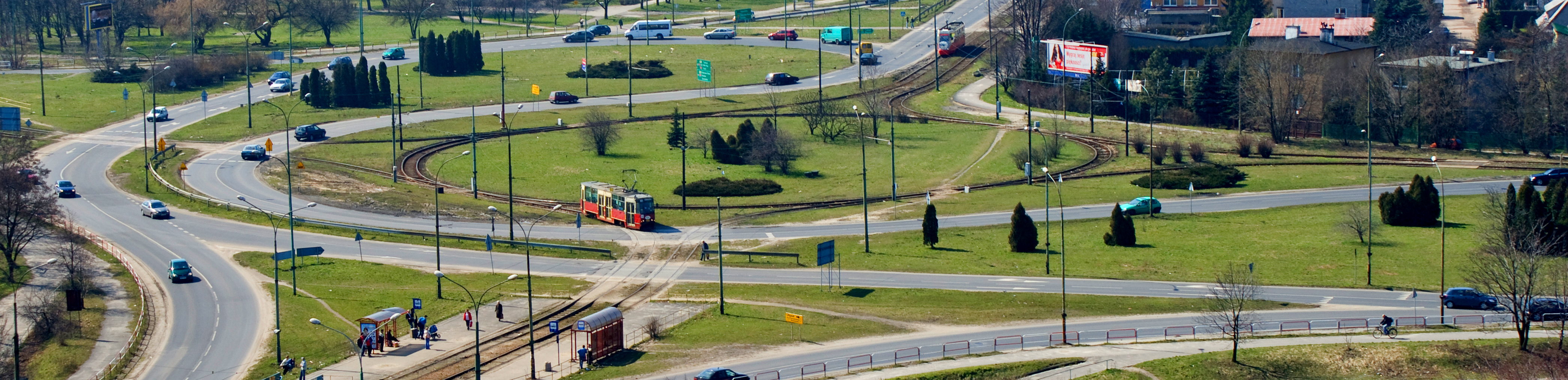 Four-way tram roundabout in Będzin on the Silesian Interurbans tram system.